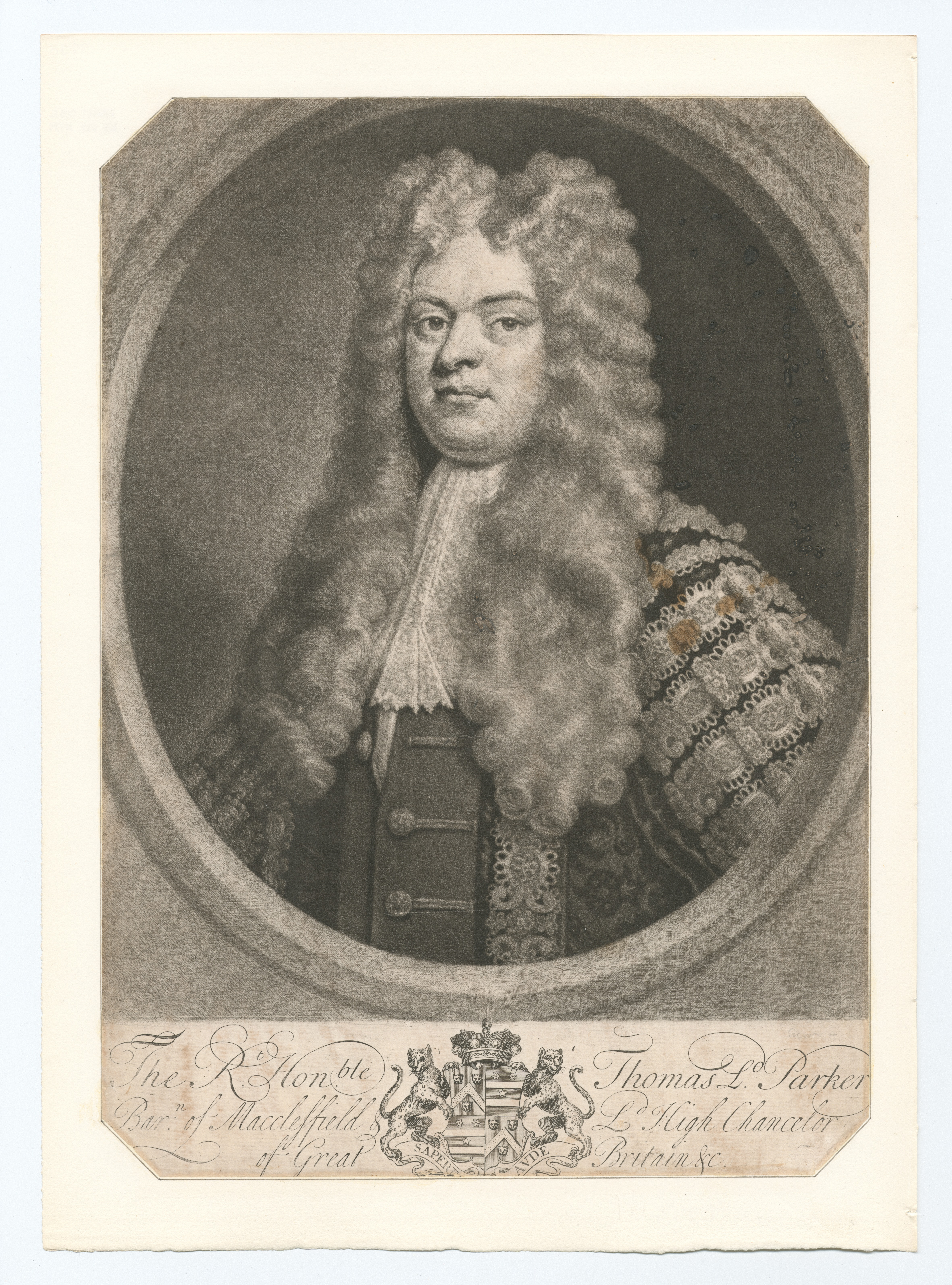 EM3758